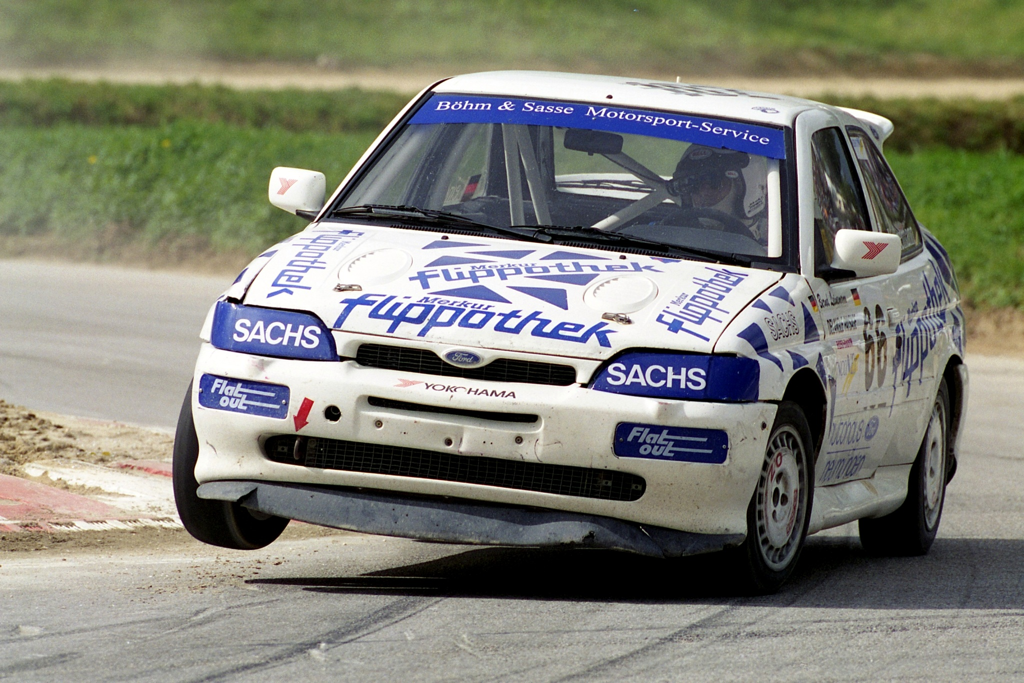 Bernd Leinemann, Germany, Ford Escort RS Cosworth, Division 1 Group N, 1995 FIA Inter-Nations Cup Rallycross, Circuit des Ducs, Essay-Orne, France